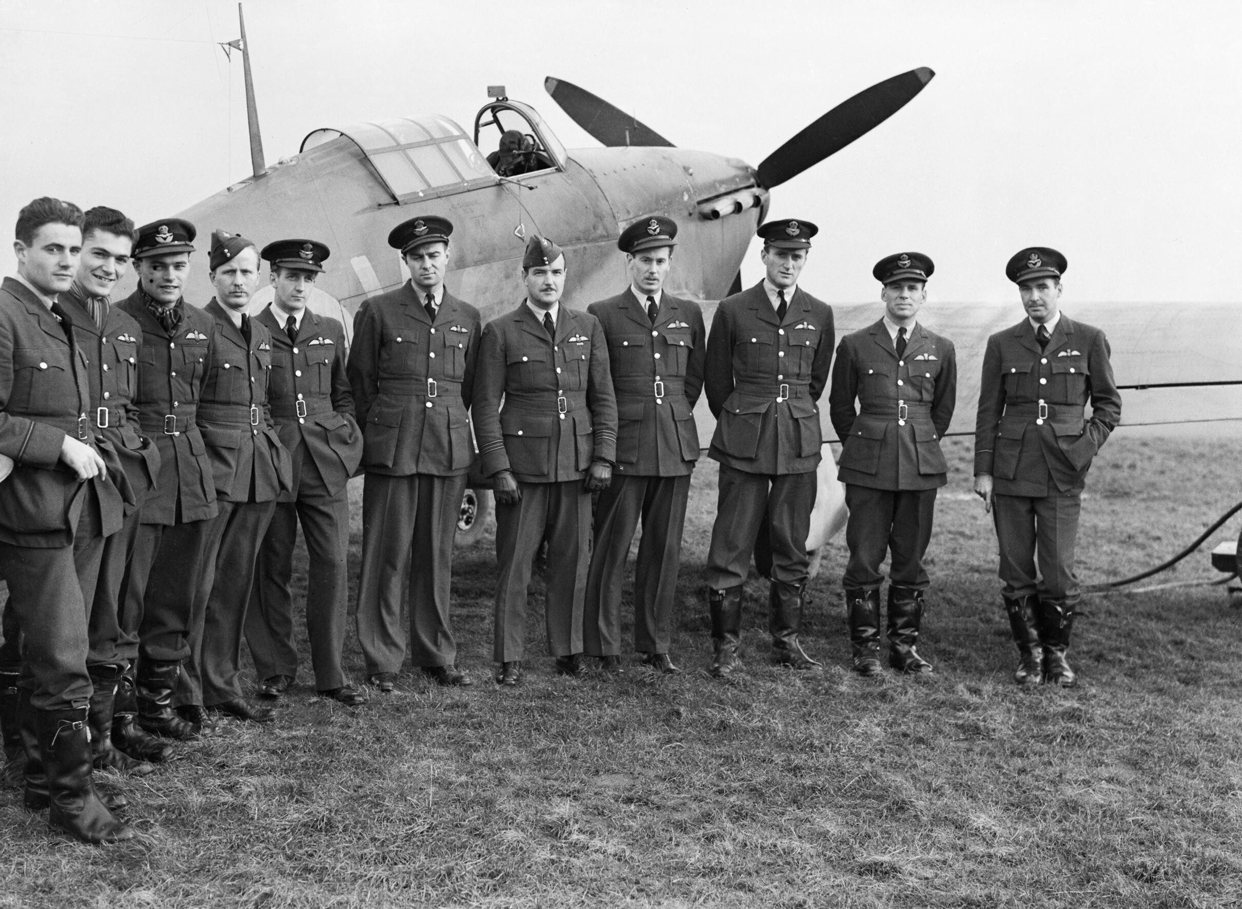 Pilots of No. 1 Squadron RCAF with one of their Hawker Hurricanes at Prestwick, Scotland, 30 October 1940. A group of pilots of No 1 Squadron RCAF, gather round one of their Hawker Hurricane Mark Is at Prestwick, Scotland. The Squadron Commanding Officer, Squadron Leader E A McNab, stands fifth from the right, wearing a forage cap.